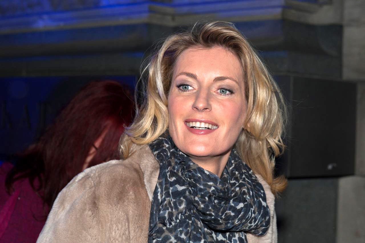 Maria Furtwängler, German actress, Berlinale 2012, ARD Degeto Blue Hour Party